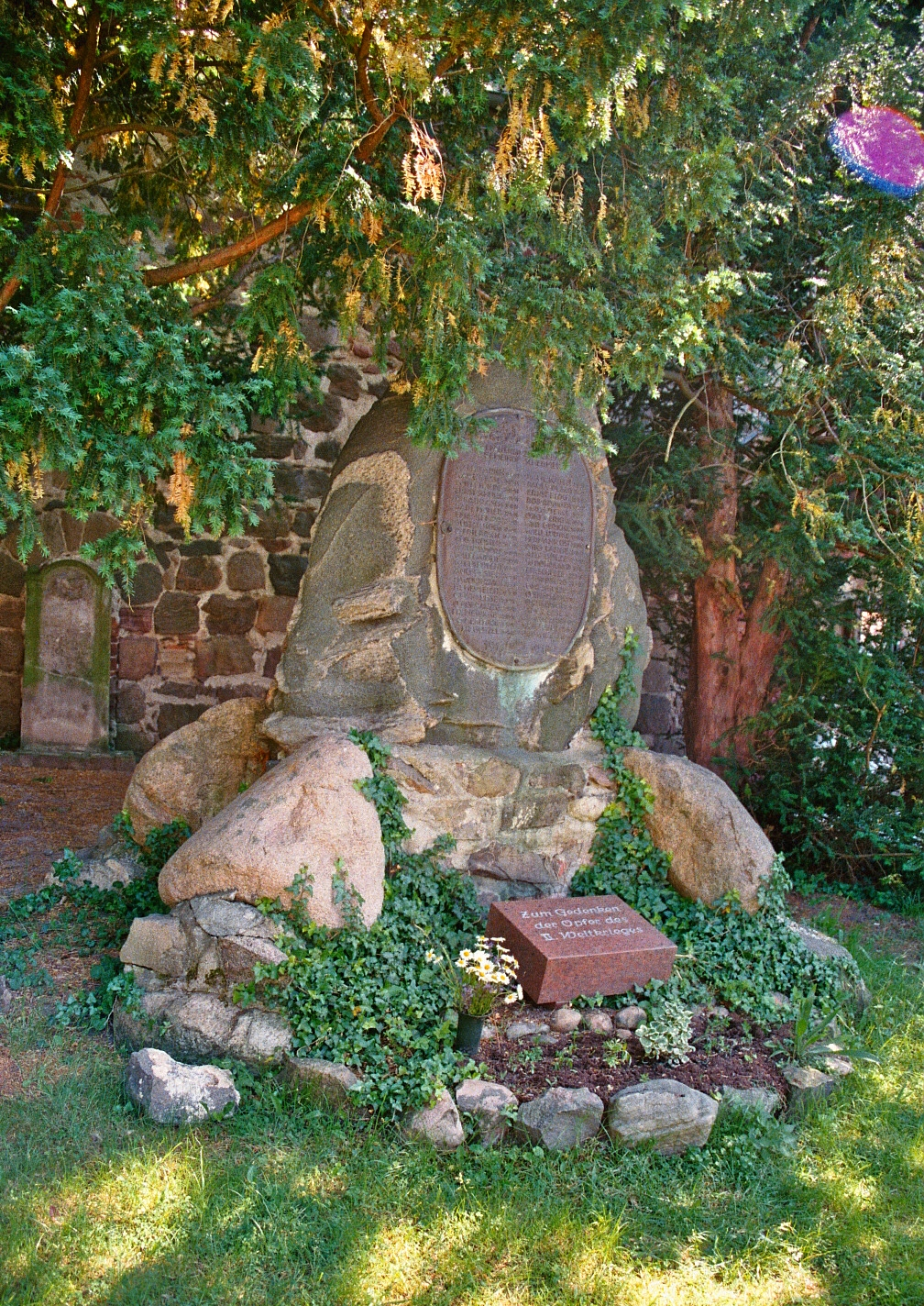 War memorial on the churchyard in Schermen, Möser, Landkreis Jerichower Land, Sachsen-Anhalt, Germany.